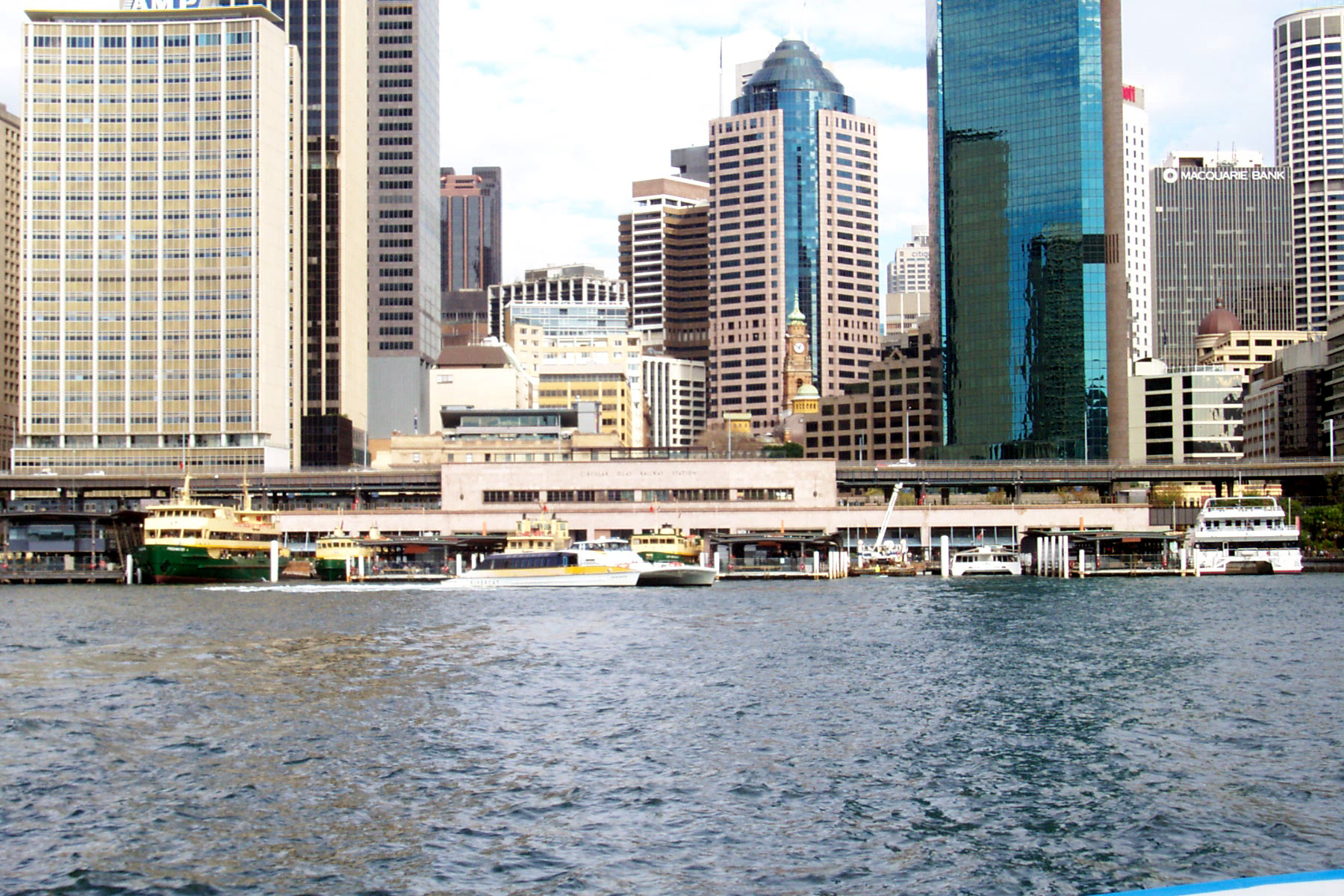 Circular Quay ferry terminal and railway station, Sydney, Australia